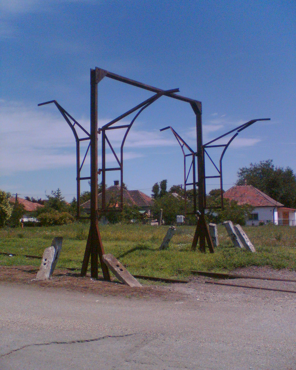 Loading gauge profile in Kunszentmiklós-Tass railway station, Hungary